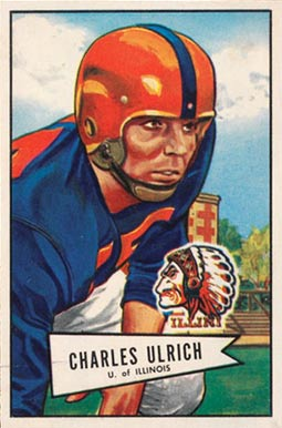 American football player Chuck Ulrich on a 1952 Bowman Large card.